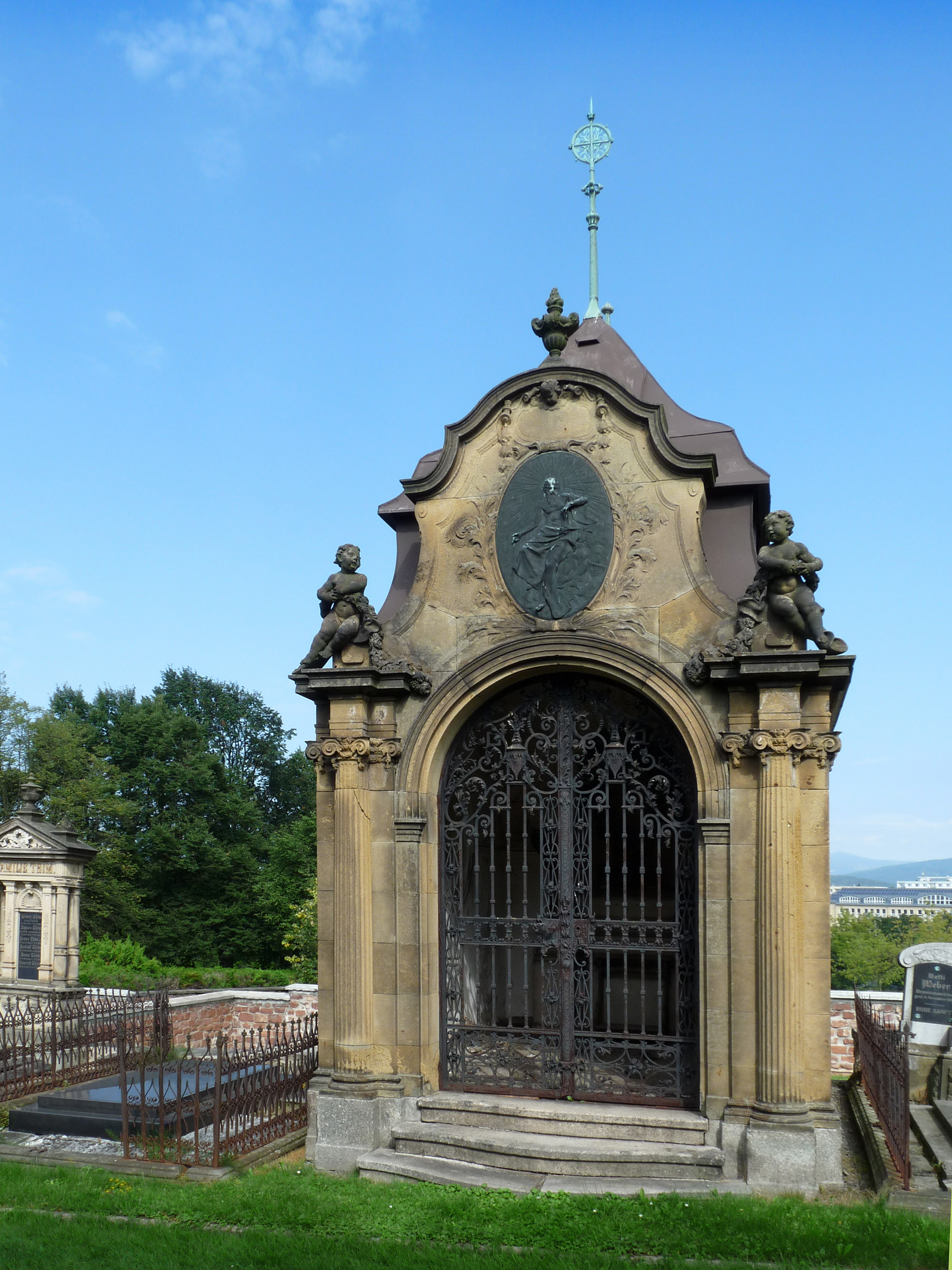 Tomb in the cemetery in the town of Trutnov, Hradec Králové Region, Czech Republic